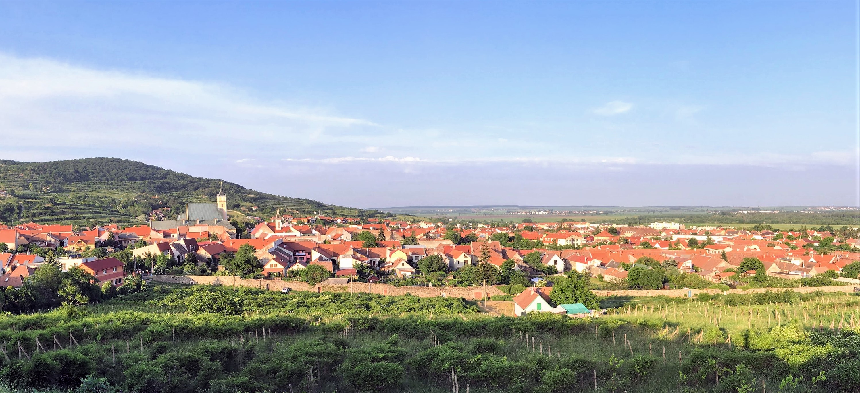 Svätý Jur, panorama view